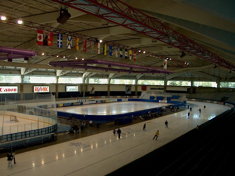 Inside the Olympic Oval Calgary in Calgary Alberta. Picture taken on 17SEP05 by DrHaggis.